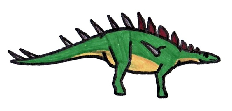 Simple illustration of the stegosaurian dinosaur Kentrosaurus.